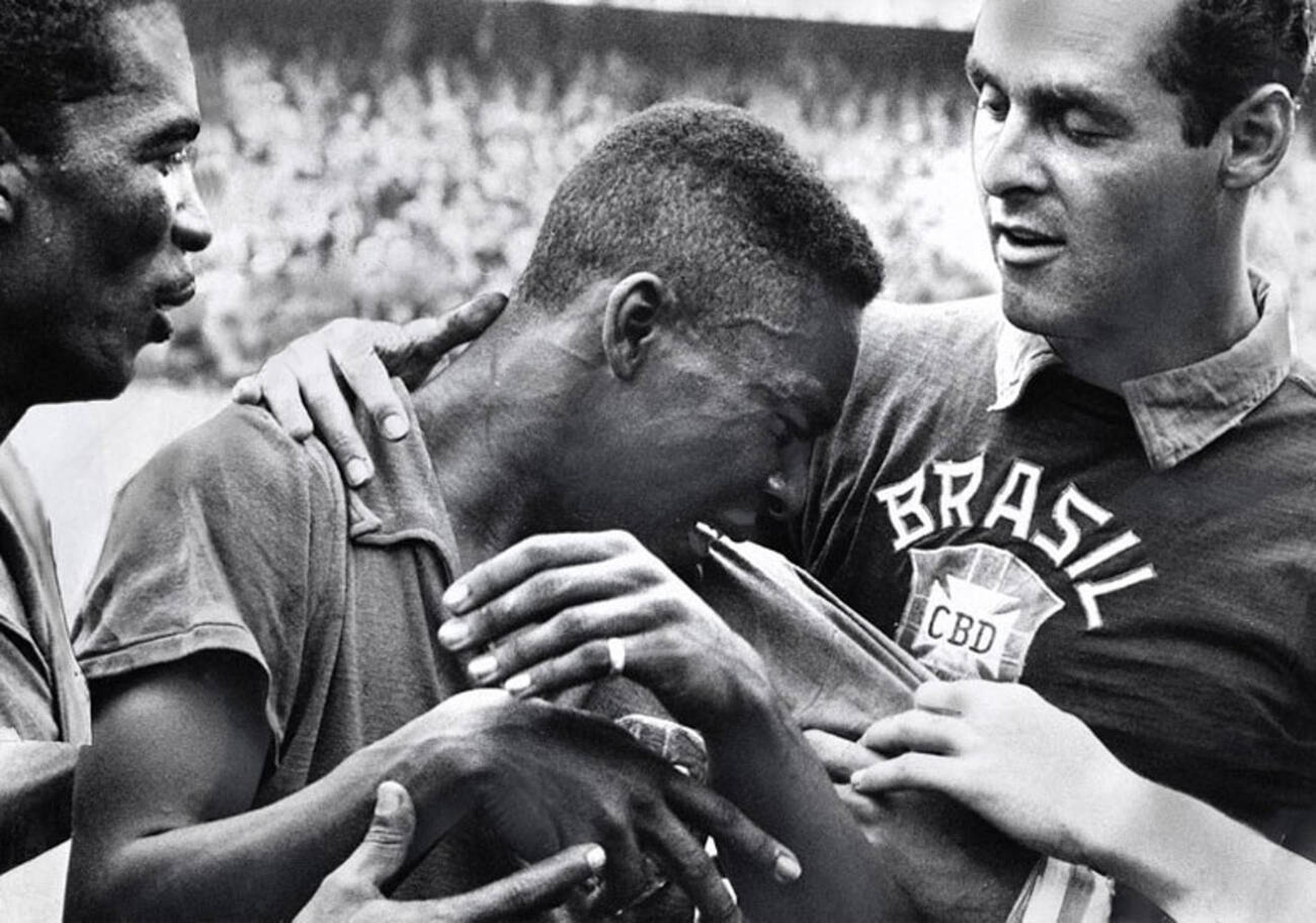 FIFA World Cup 1958. Final between Sweden and Brazil. The match ended 2-5. From the left Didi, Pelé and Gylmar.